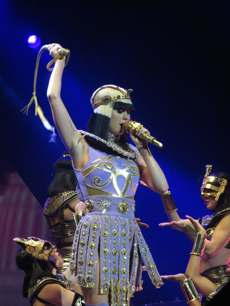 Katy Perry performing "Dark Horse" at SEE Hydro in Glasgow in May 17, 2014.